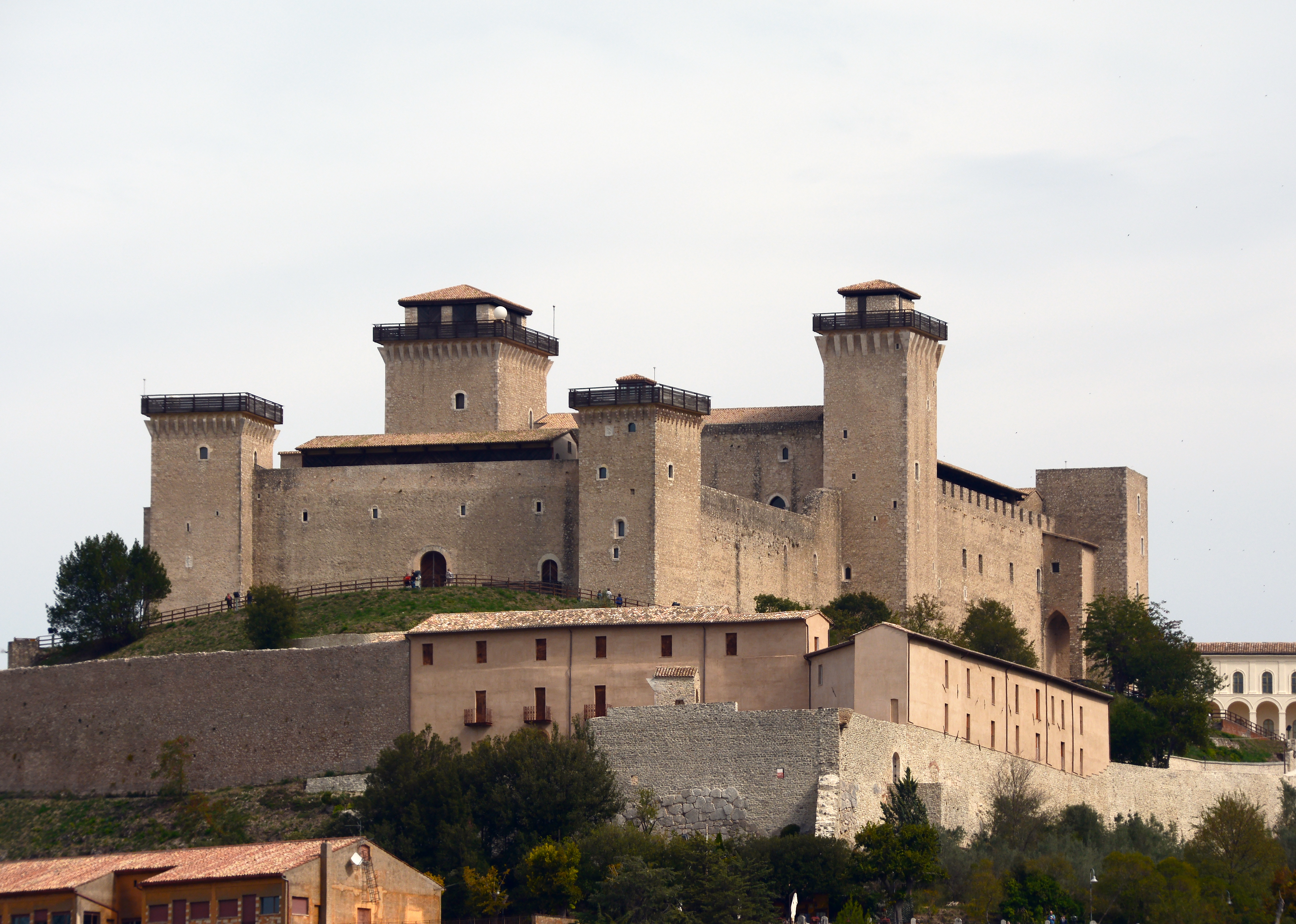 Rocca Albornoziana, Spoleto